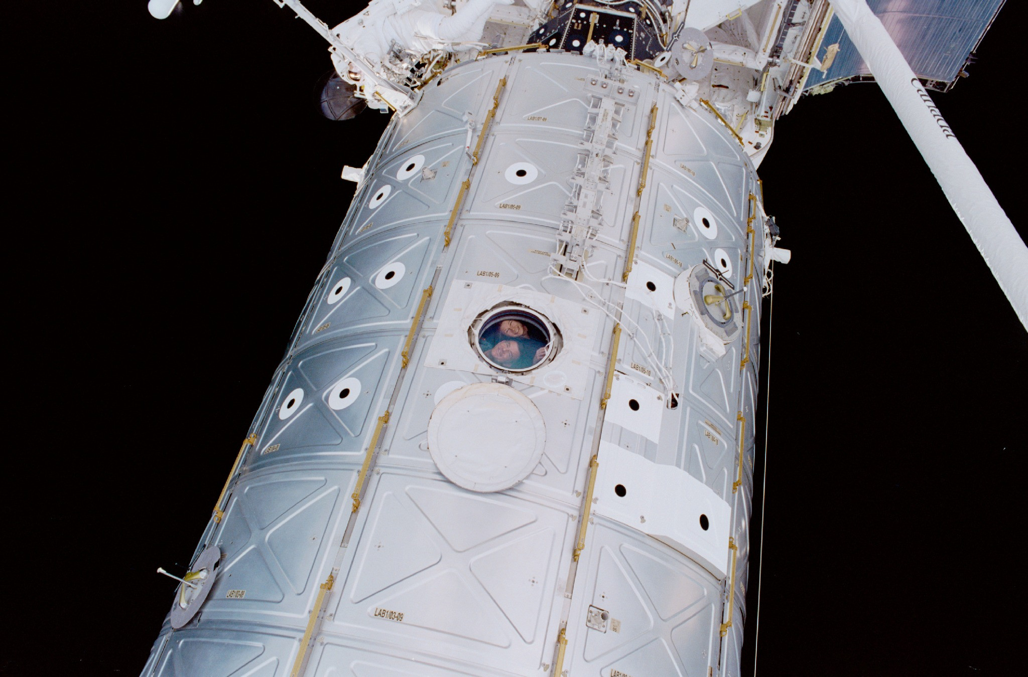 A close look at the window in this picture of the Destiny laboratory reveals the faces of astronauts Susan J. Helms and James S. Voss, flight engineers for the Expedition Two mission